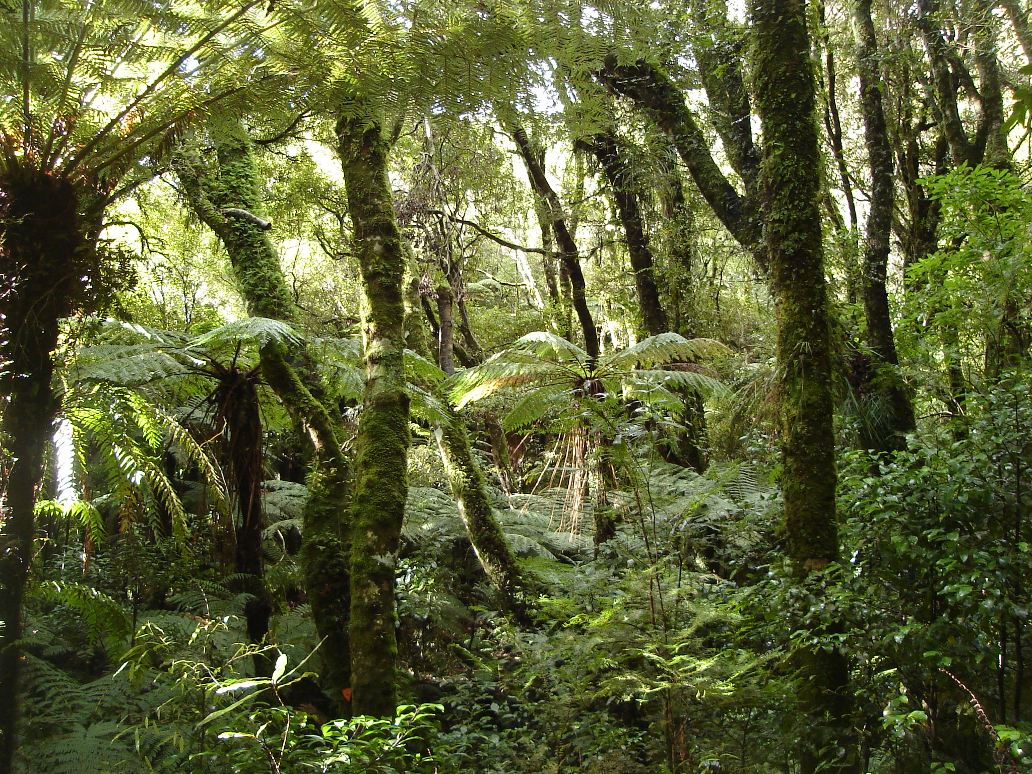 Rain Forest in New Zealand (in Mt Bruce National Wildlife Centre)